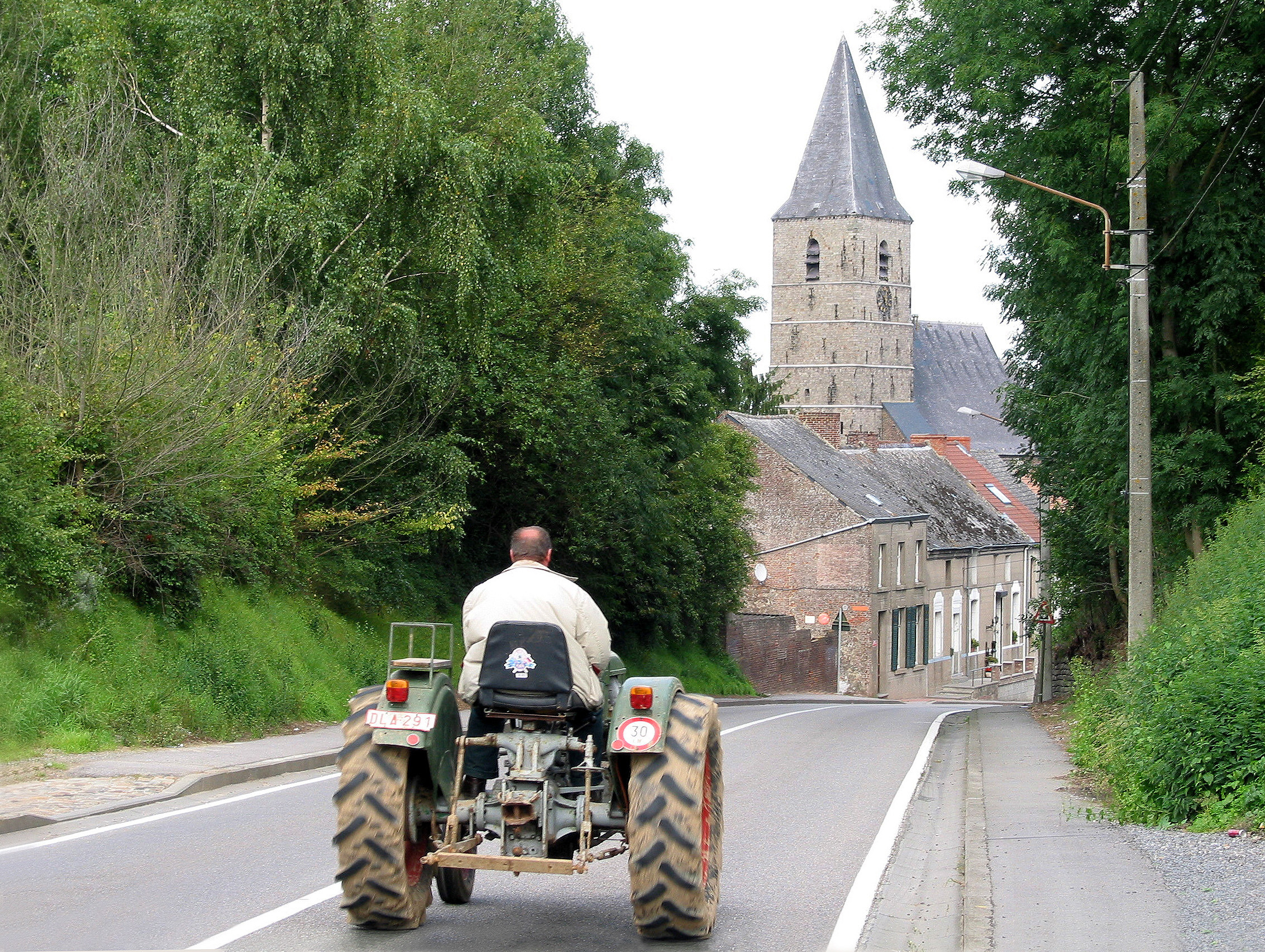 Estinnes-au-Mont (Belgium), the rue Grande (Via Belgica) and the Saint Remigius' church.